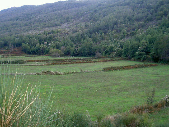 Plain of Roti